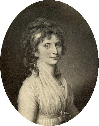 Karine Lucie Debes, wife of Jacob B. Scavenius